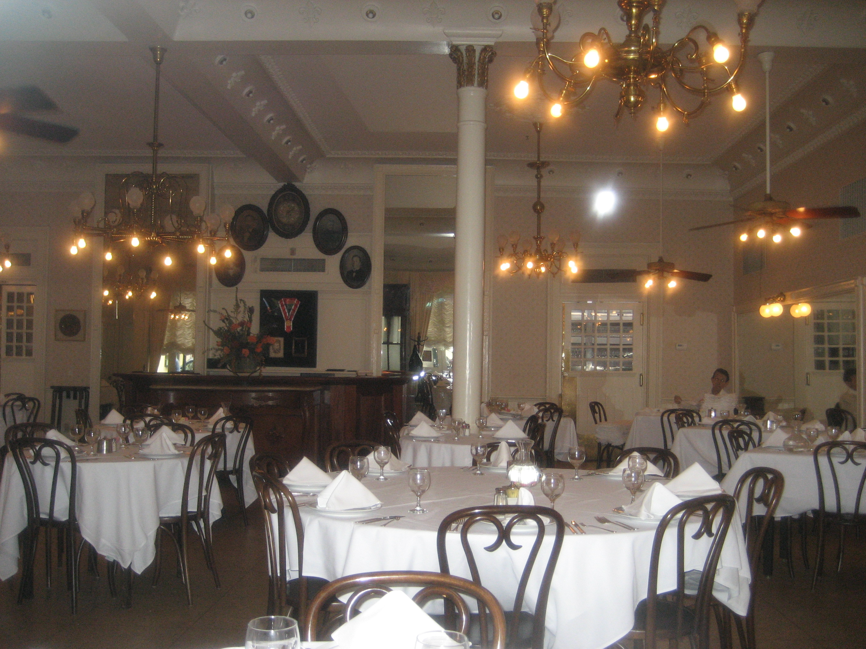 New Orleans: View of dining room of "Antoine's" restaurant